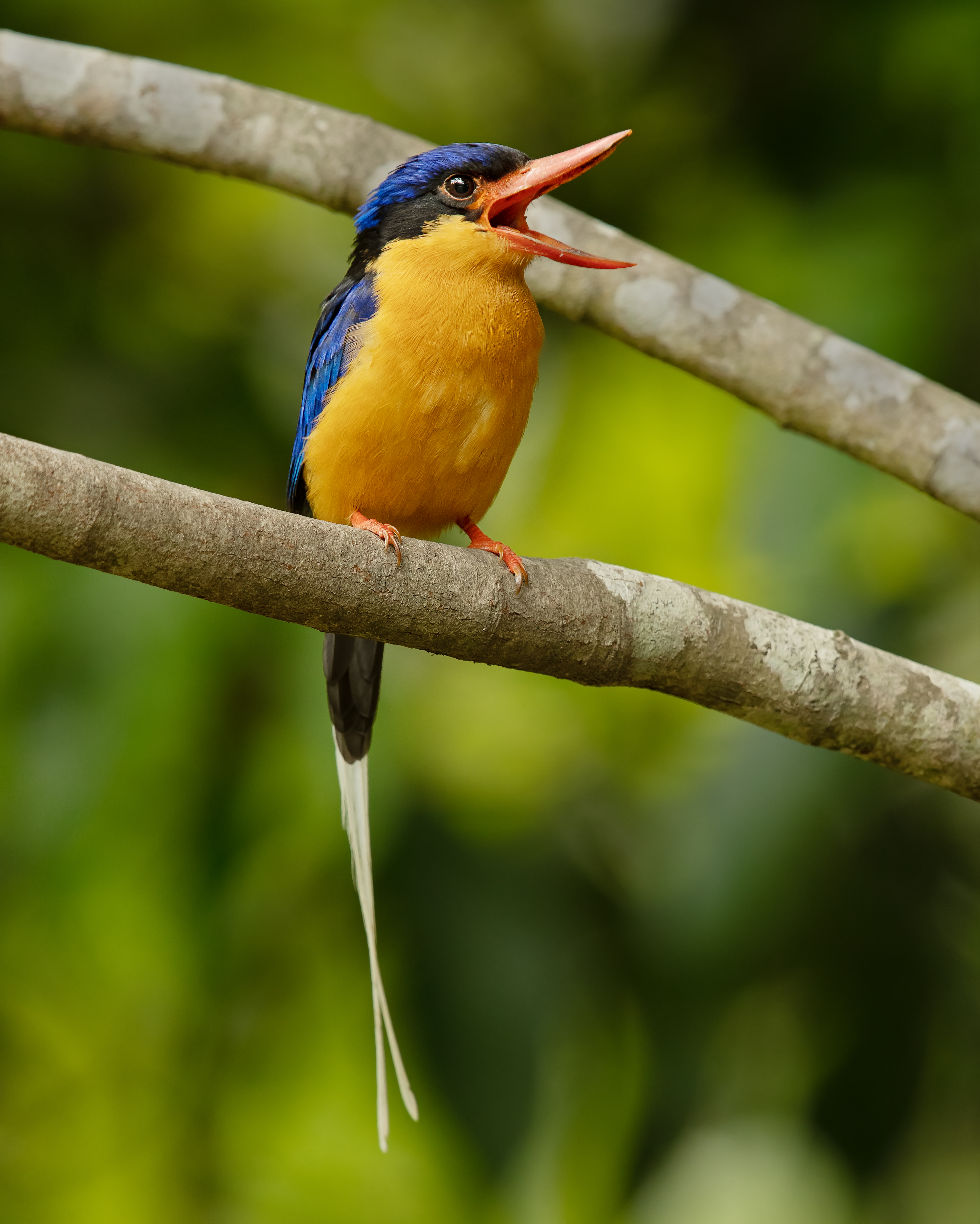 Buff-breasted Paradise-Kingfisher, Julatten, Queensland, Australia